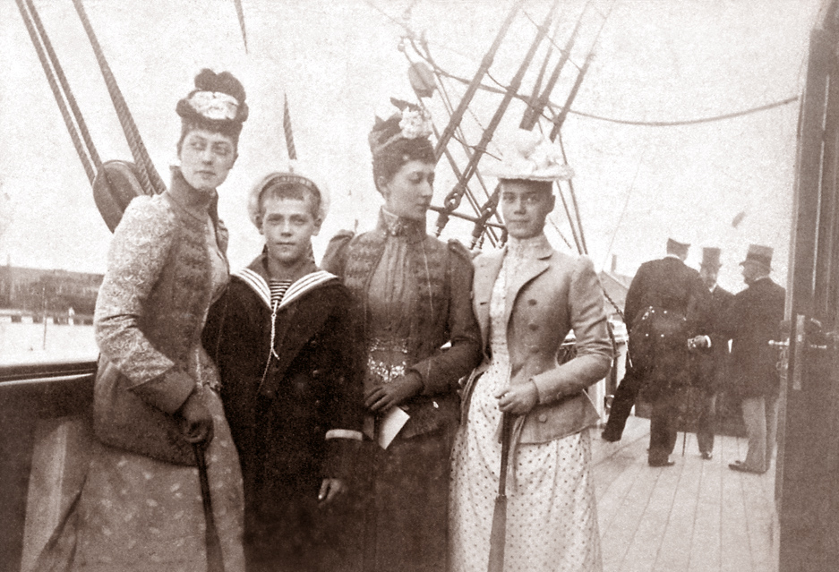 An informal family photograph of Grand Duchess Xenia, sister of the last Tzar of Russia, with her little brother Michael and cousins, Victoria and Louise, daughters of King Edward VII. Cyfrwng/Medium: Black and White Print